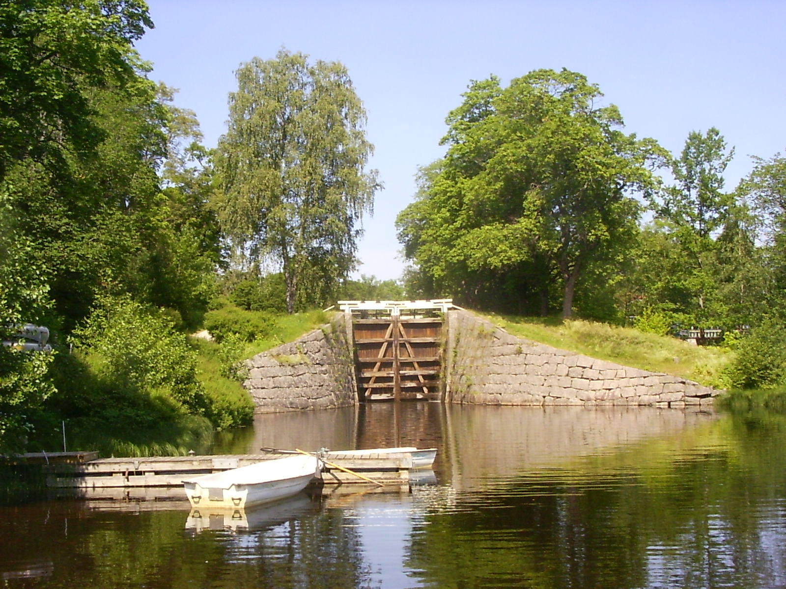 Princess Victoria lock